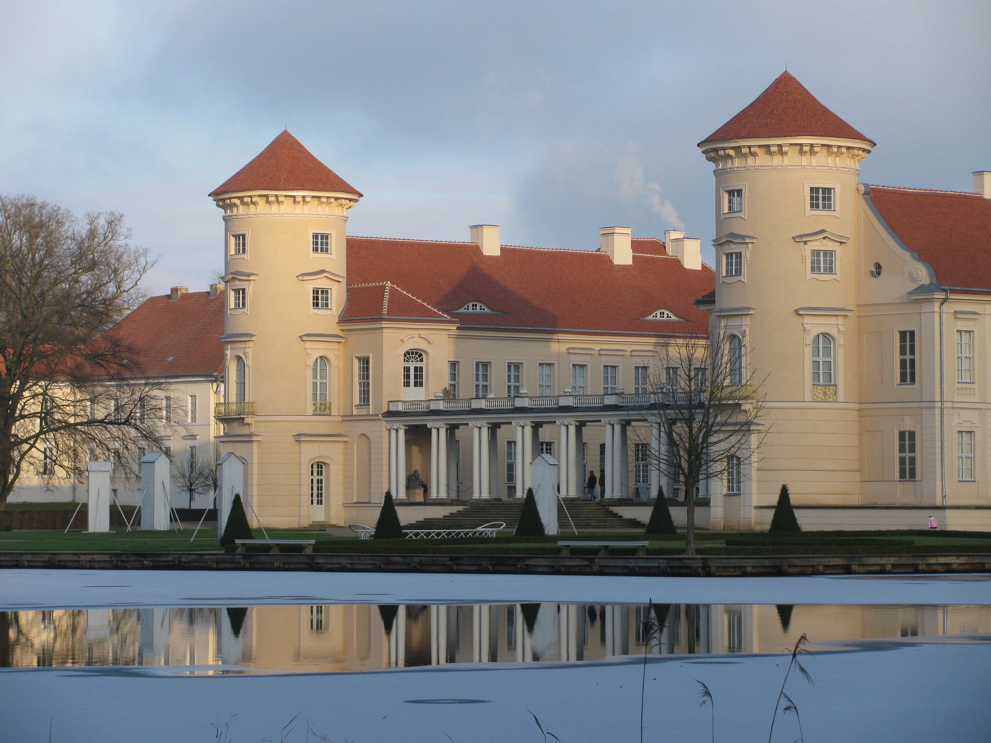 The castle of Rheinsberg, Northern Brandenburg, Germany